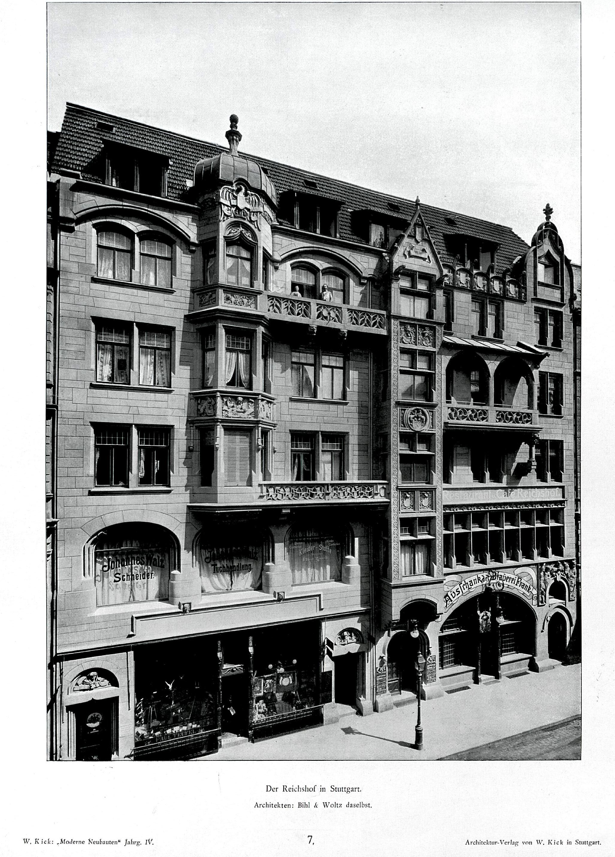 Reichshof_Stuttgart.jpg